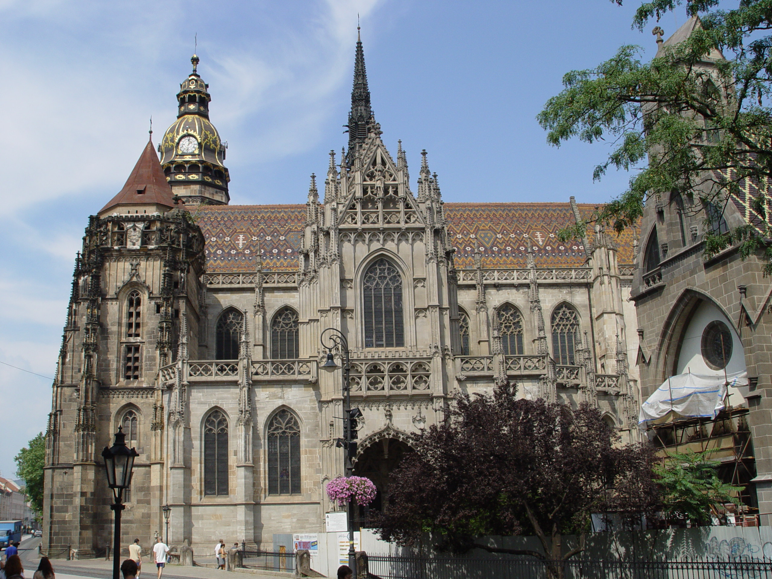 Kosice - St. Elisabeth Cathedral